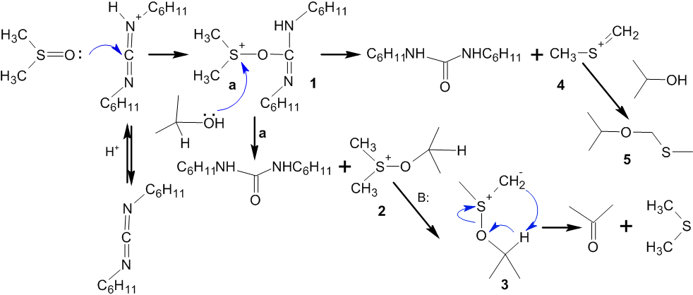 mechanism for Pfitzner-Moffatt oxidation